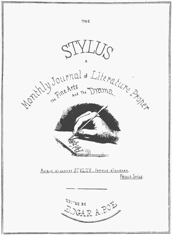 Original planned design for The Stylus by Edgar Allan Poe.